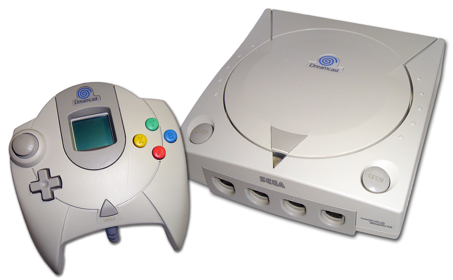 Image of a Dreamcast console and controller.